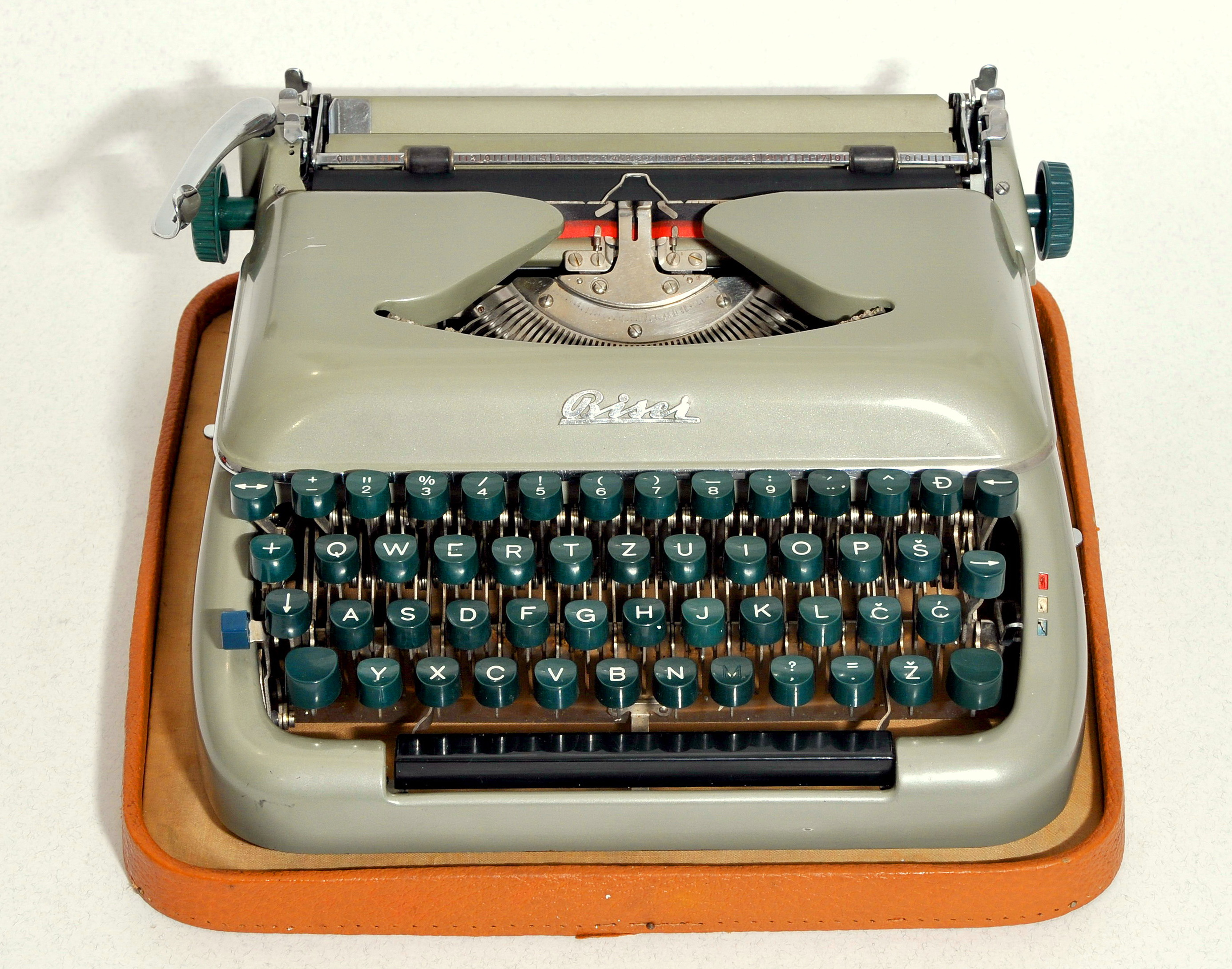 Biser typewriter with Latin letters. Biser was company from Bosnia and Herzegovina. This model can be found in the Museum of Science and Technology Belgrade.